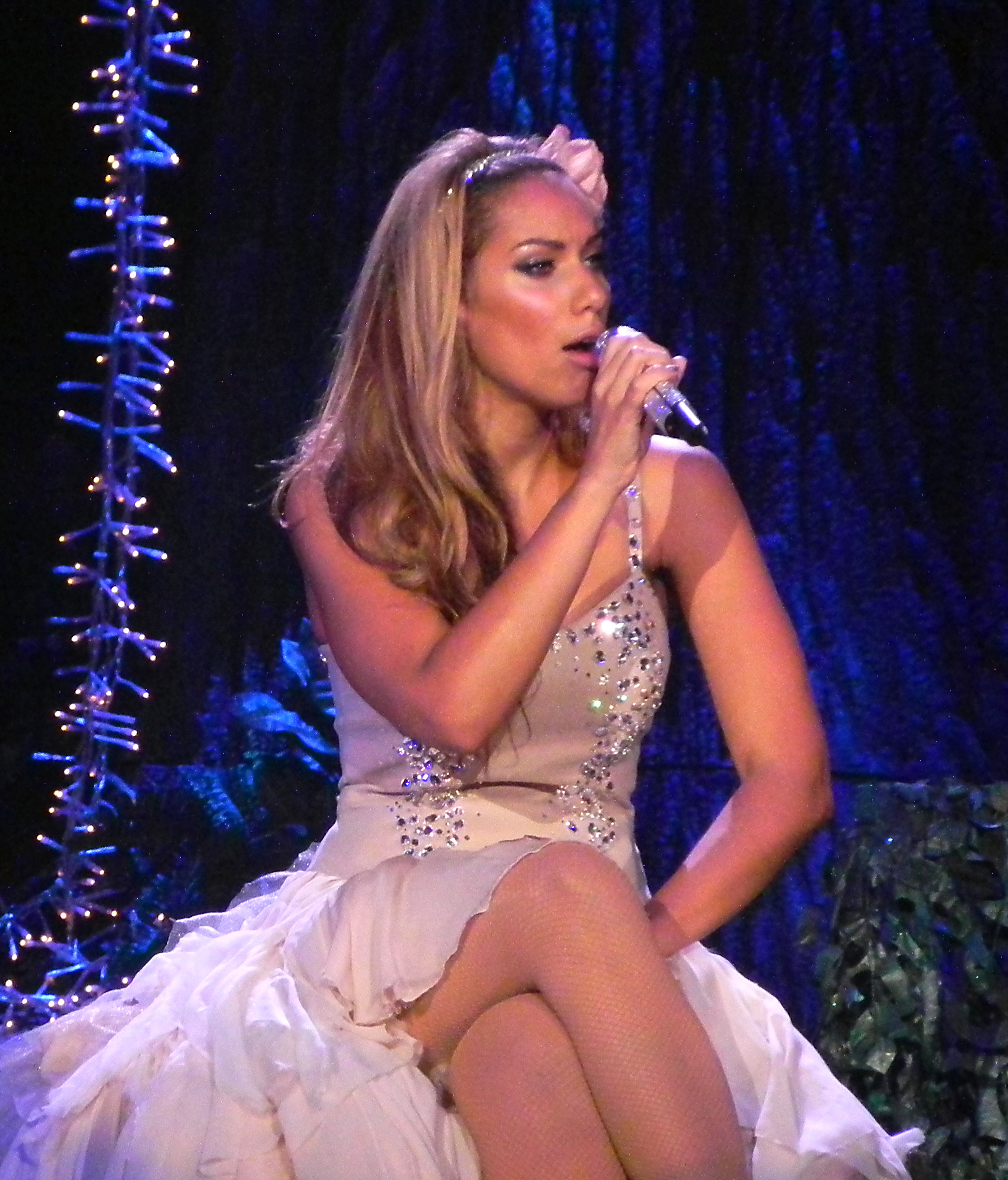 Lewis performing live, June 2, 2010